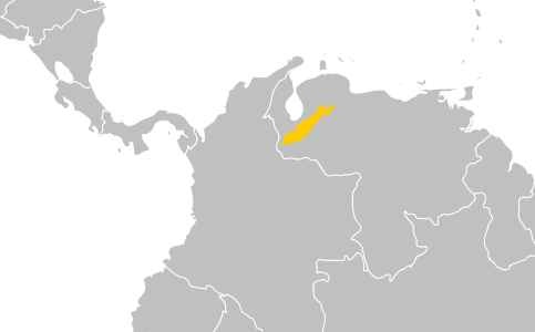 Eastern mountain coati (Nasuella meridensis) range